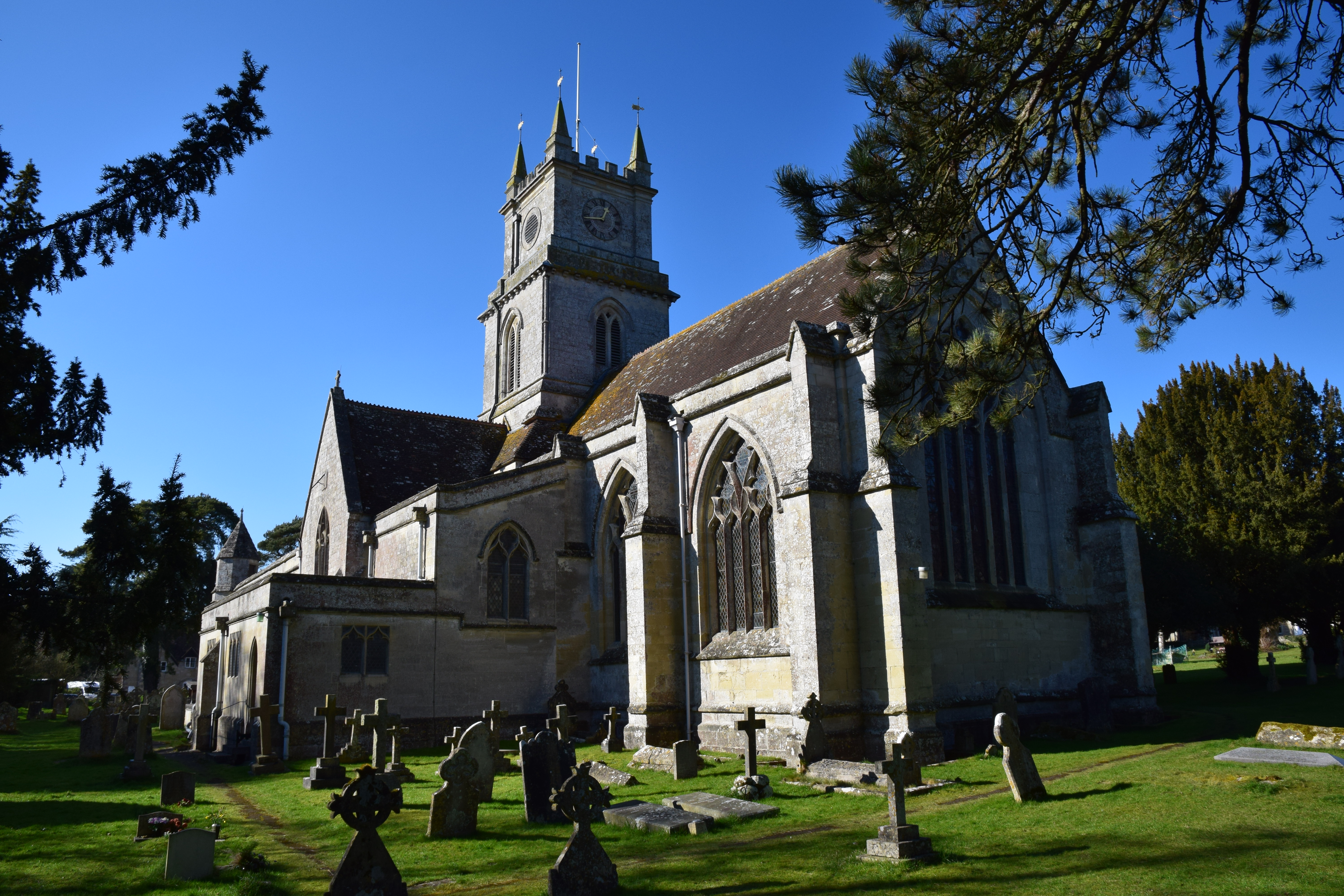 Tisbury Church (St. John the Baptist), Wiltshire, 25 February 2018. Cruciform church with 12th Century Early English core but otherwise 14th/15th Century Perpendicular. The central tower has a 18th Century Georgian top which replaced a stone spire.